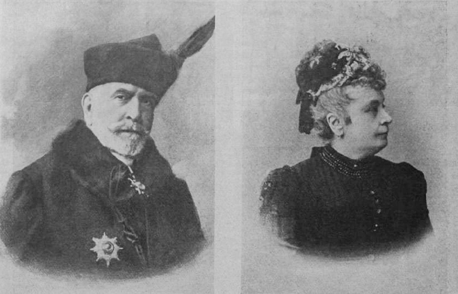 Portrait of Kálmán Esterházy and his wife